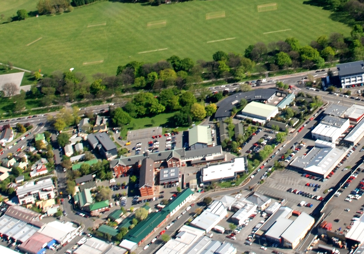 Hagley High School, Canterbury, New Zealand, 24 October 2007. Photo taken en route Wellington to Christchurch.